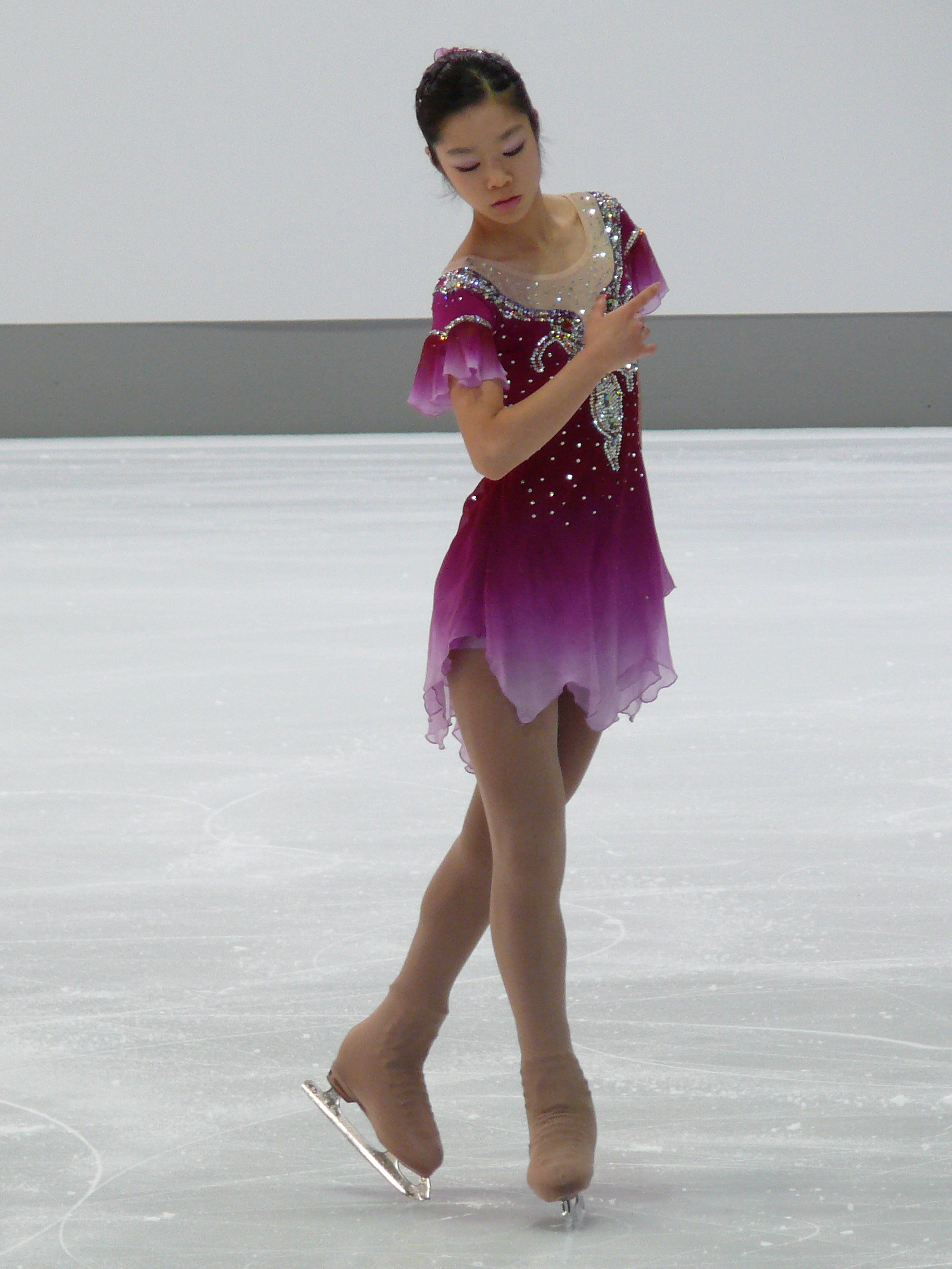 Kim Na-Young (KOR) at her free program at the Nebelhorntrophy 2008 in Oberstdorf, Germany